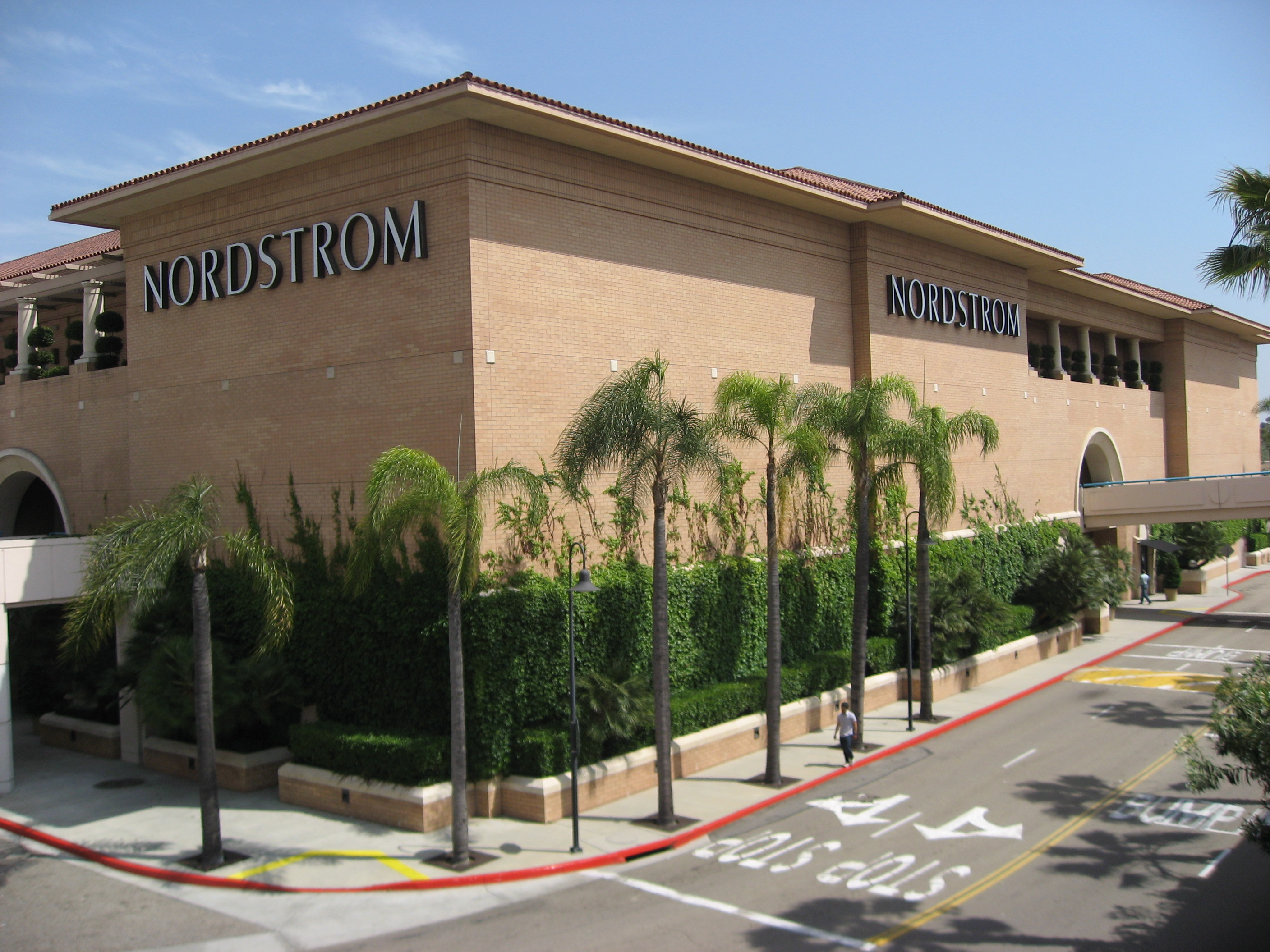 Exterior of NW corner of Brea Mall, Brea, CA, USA.